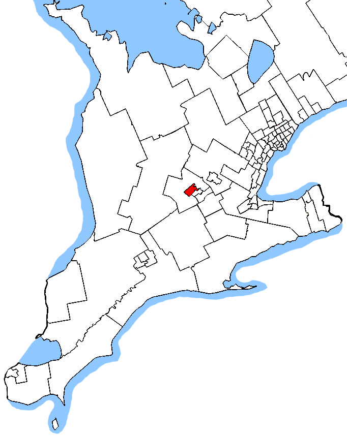 This is a map of southwestern Ontario showing the location of the Waterloo federal electoral district.